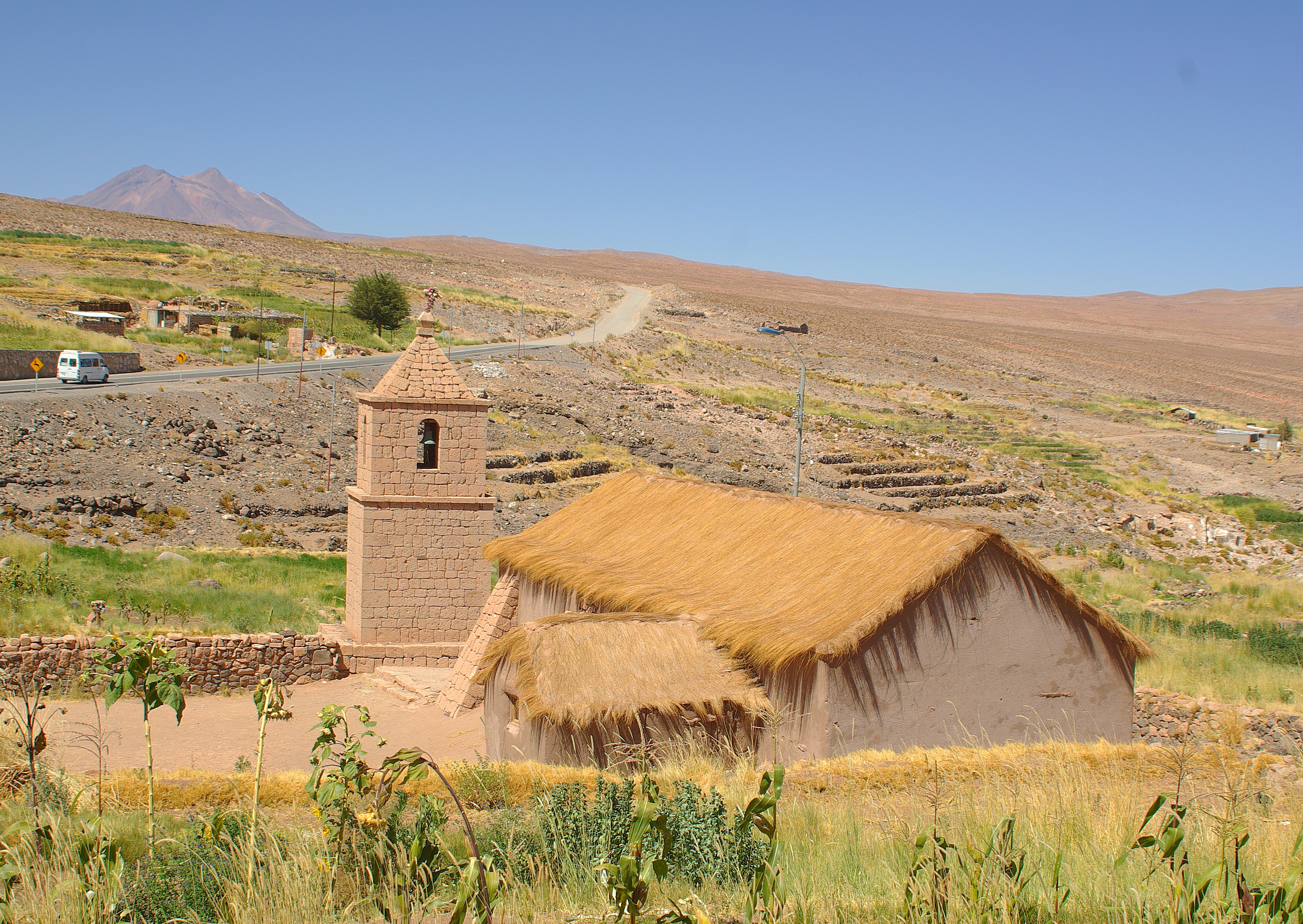 The old church of Socaire. The church and its tower are oriented to the Miñiques volcano which is a holy mountain to the people of Socaire.